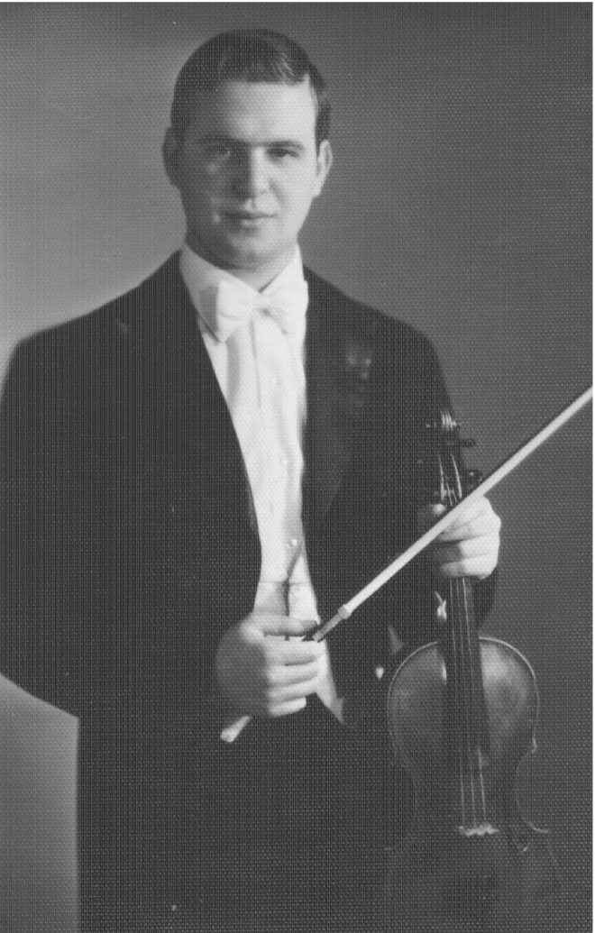 Белоцерковский Валентин Михайлович